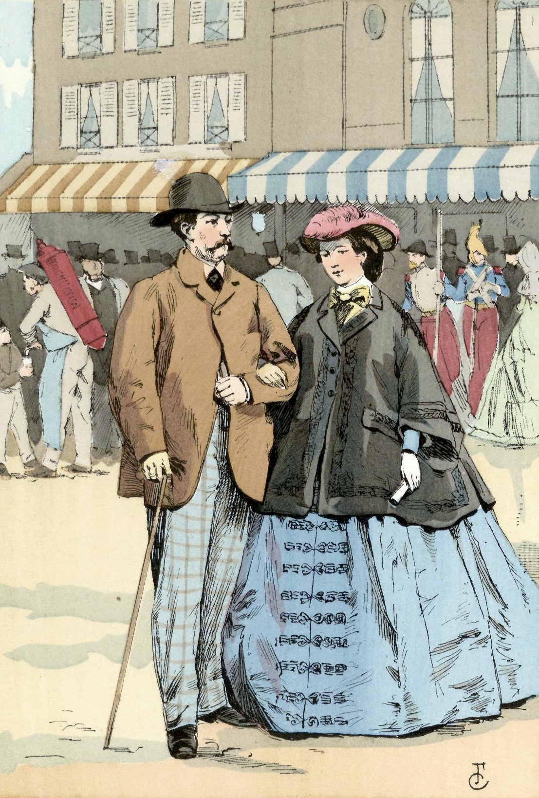 The man on the left wears wide-legged, loose-fitting pants and a coat with no waist and buttoned high to the neck. The woman is wearing a blue dress with a fairly flat front that has a train and a crinoline that extends behind her. She is also wearing a black mantelet. Abstract sources: Boucher, François. 20,000 Years of Fashion. New York: Harry N. Abrams, Inc, 1967. Ruppert, Jacques. Le Costume Français. Paris: Flammarion, 1996.